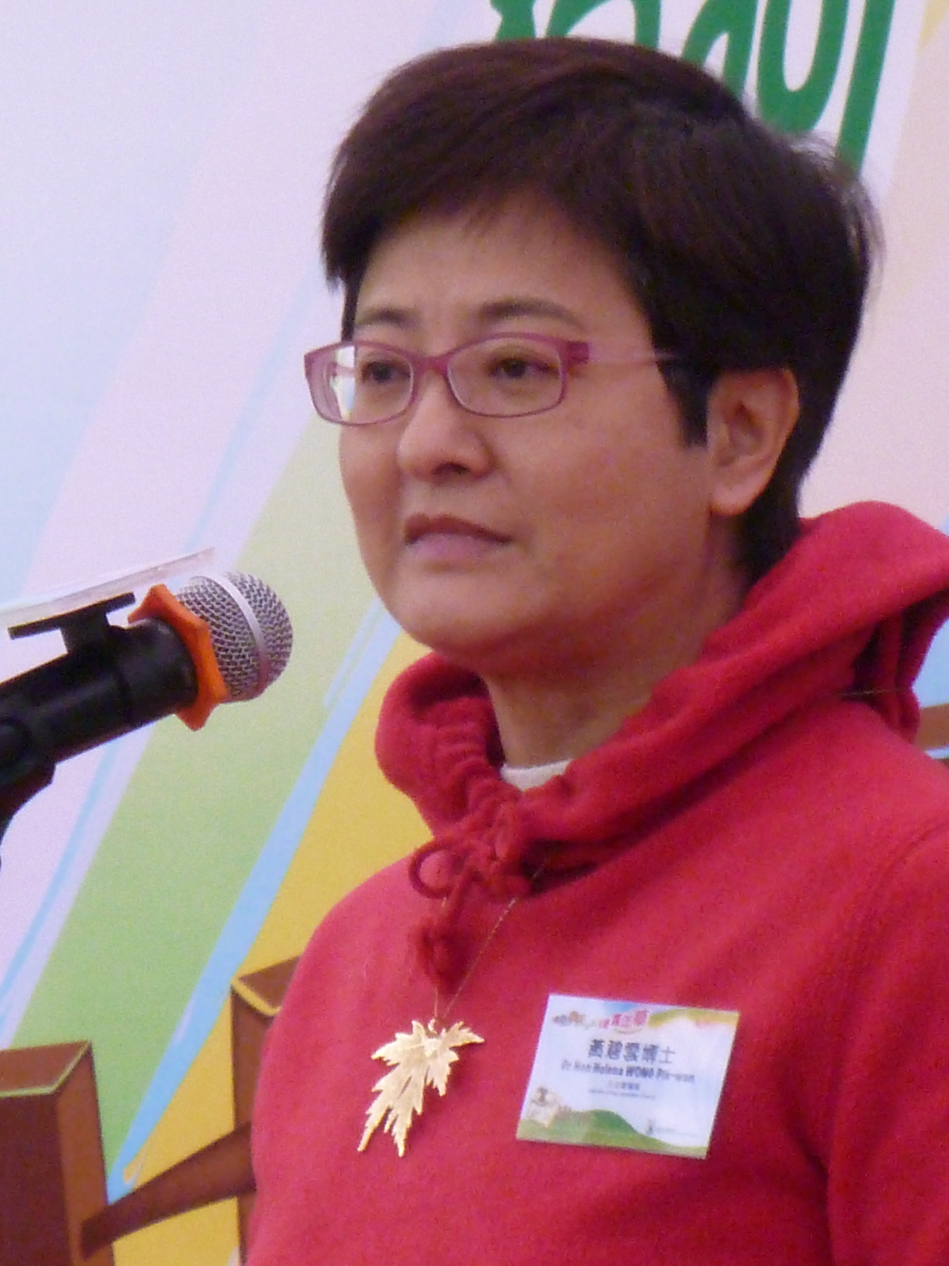 Helena Wong Pik-wan (15 Feb 2014, Dog Adoption Carnival, Lai Chi Kok Park Phase 1 Soccer Pitch)中文（香港）: 黃碧雲 (15 Feb 2014, 狗狗領養嘉年華, 荔枝角公園一期足球場)